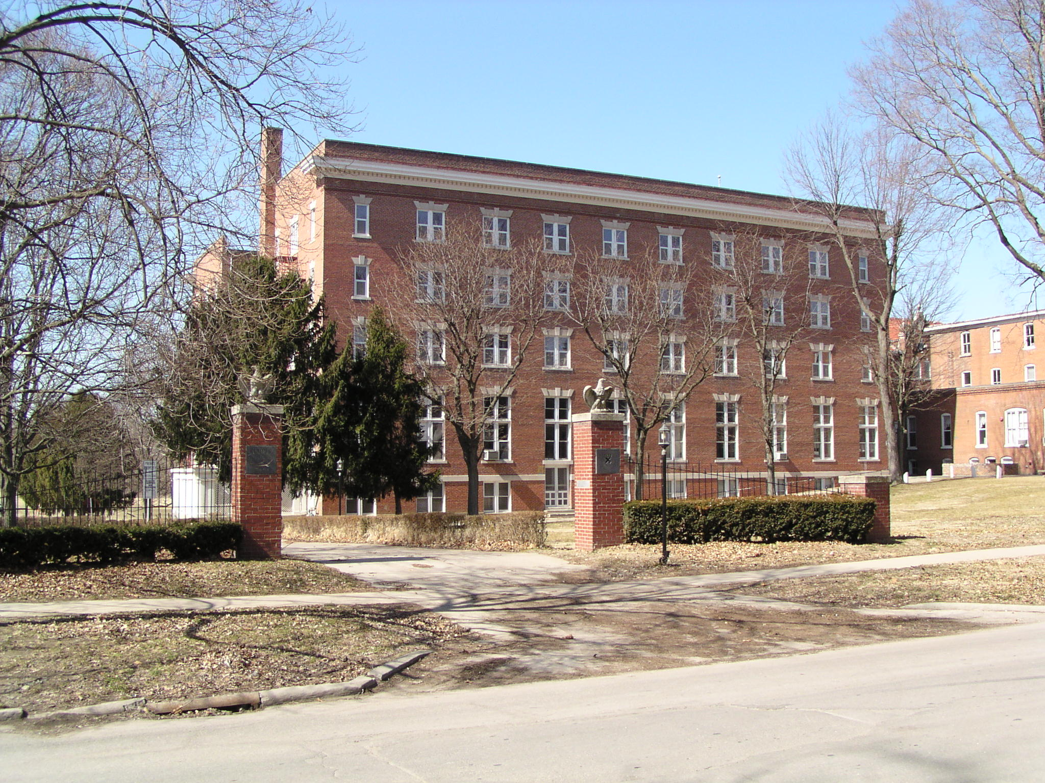 Pictures taken in March 2003 of the former Kemper Military School in Boonville, Missouri.